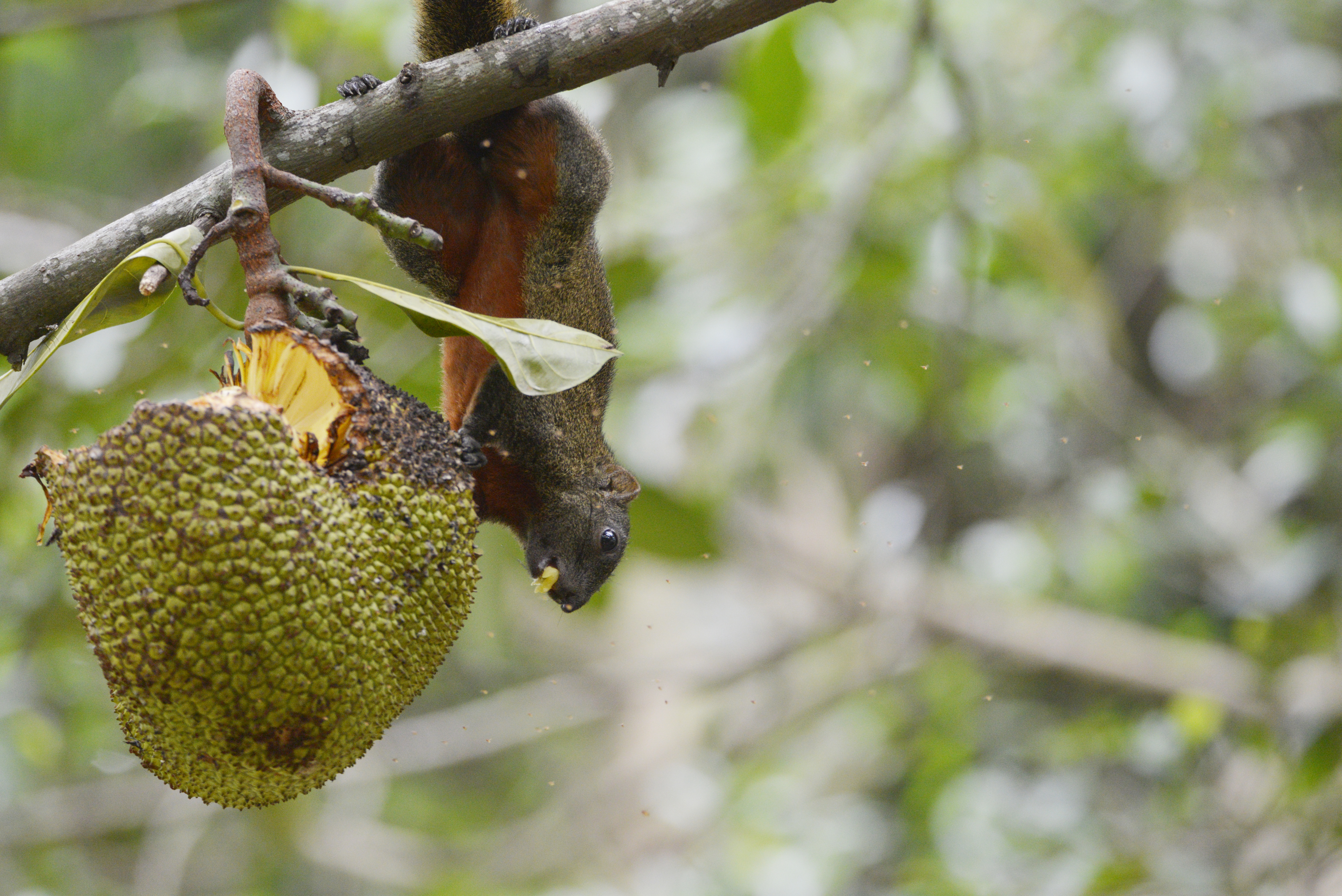 Callosciurus erythraeus thaiwanensis (Pallas, 1779) 赤腹松鼠